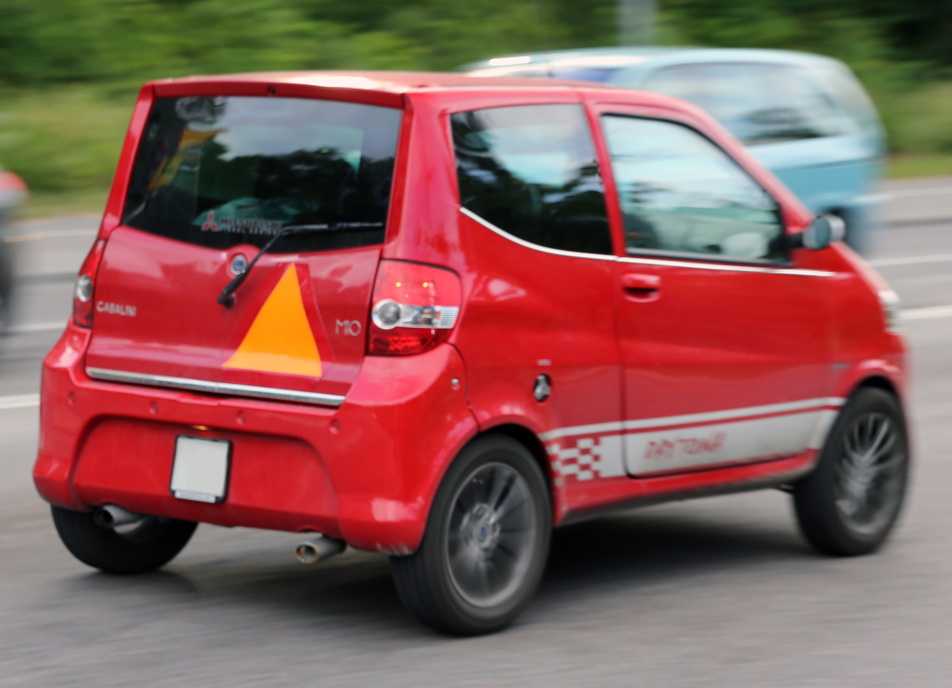 Rear of a 2011 Casalini M10 Daytona (series 72) on the move, 635cc Mitsubishi diesel engine with 3.9kW. Engine number 46432. The warning triangle is to announce that this car, classified as a moped in Sweden, cannot be drien on highways.